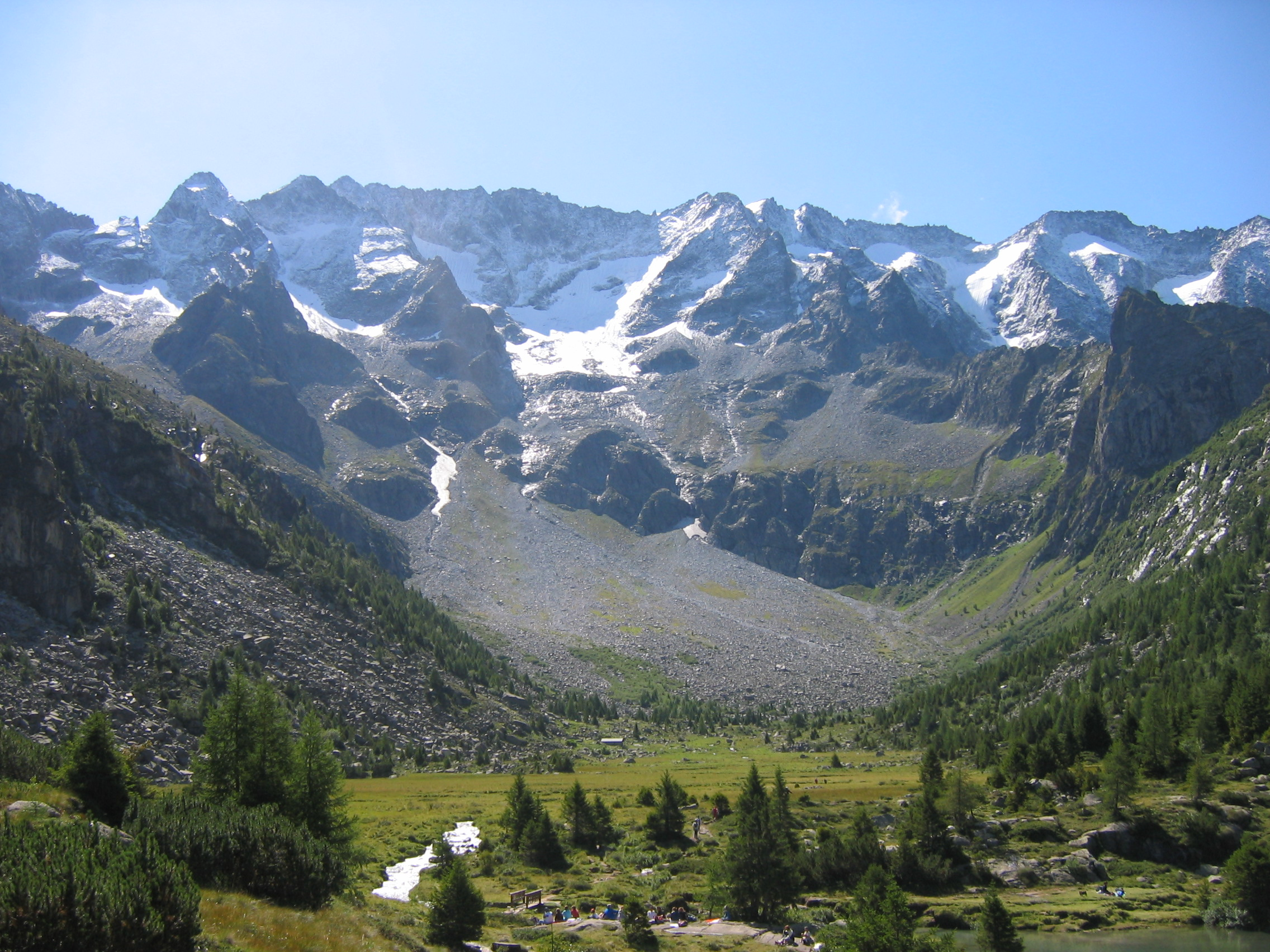 Paghera Valley and Baitone Mountains